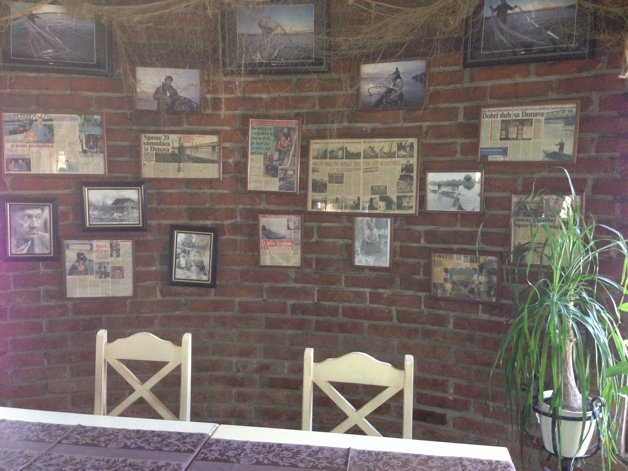 History, Tavern at Goca and Renato, Belgrade, Serbia